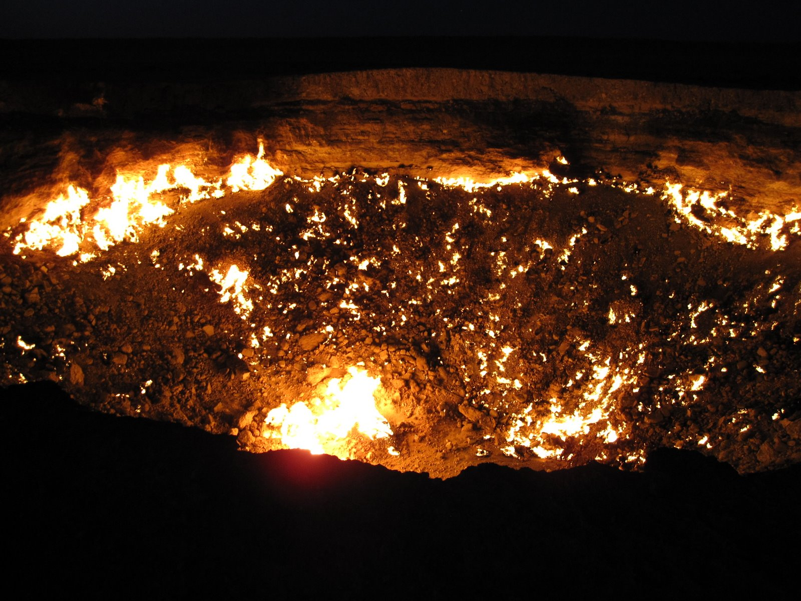 That's as close as I'll go